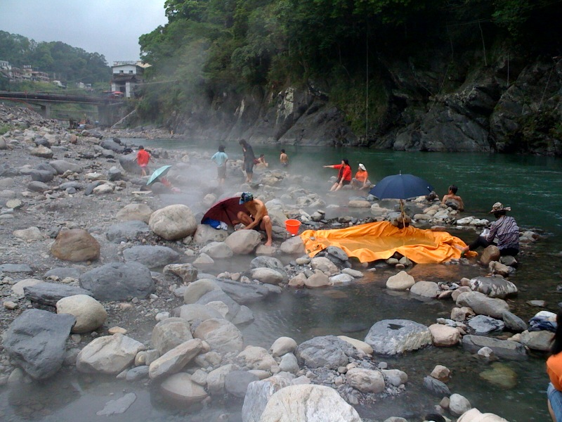 Wulai hotsprings Taiwan